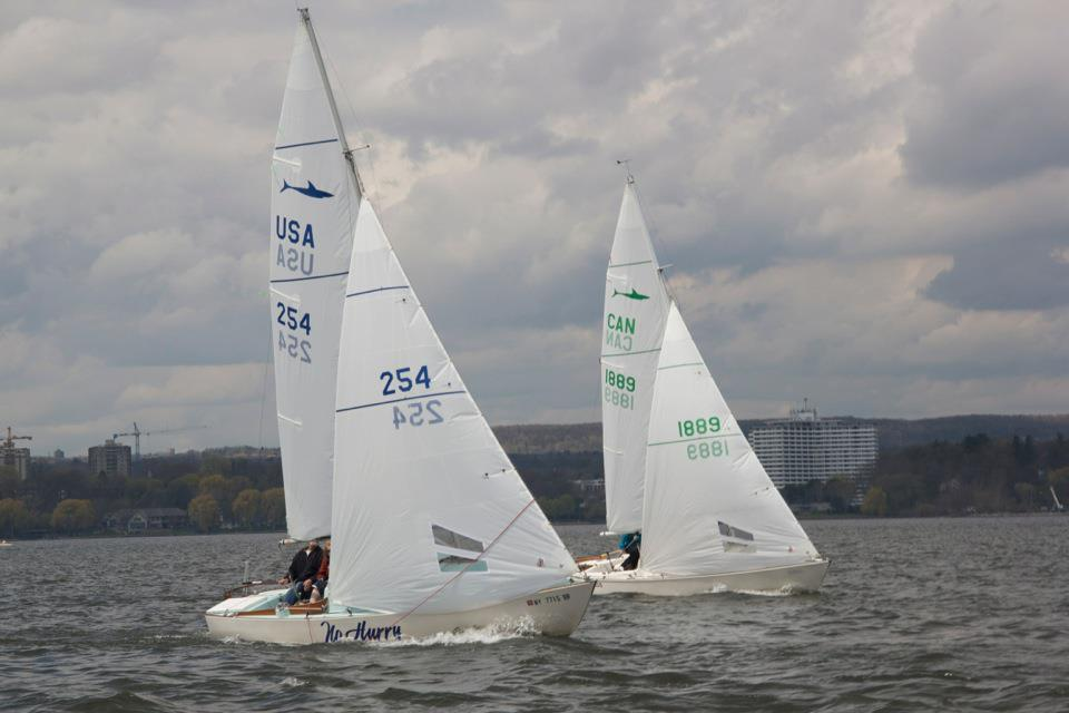 Shark 24 keelboats